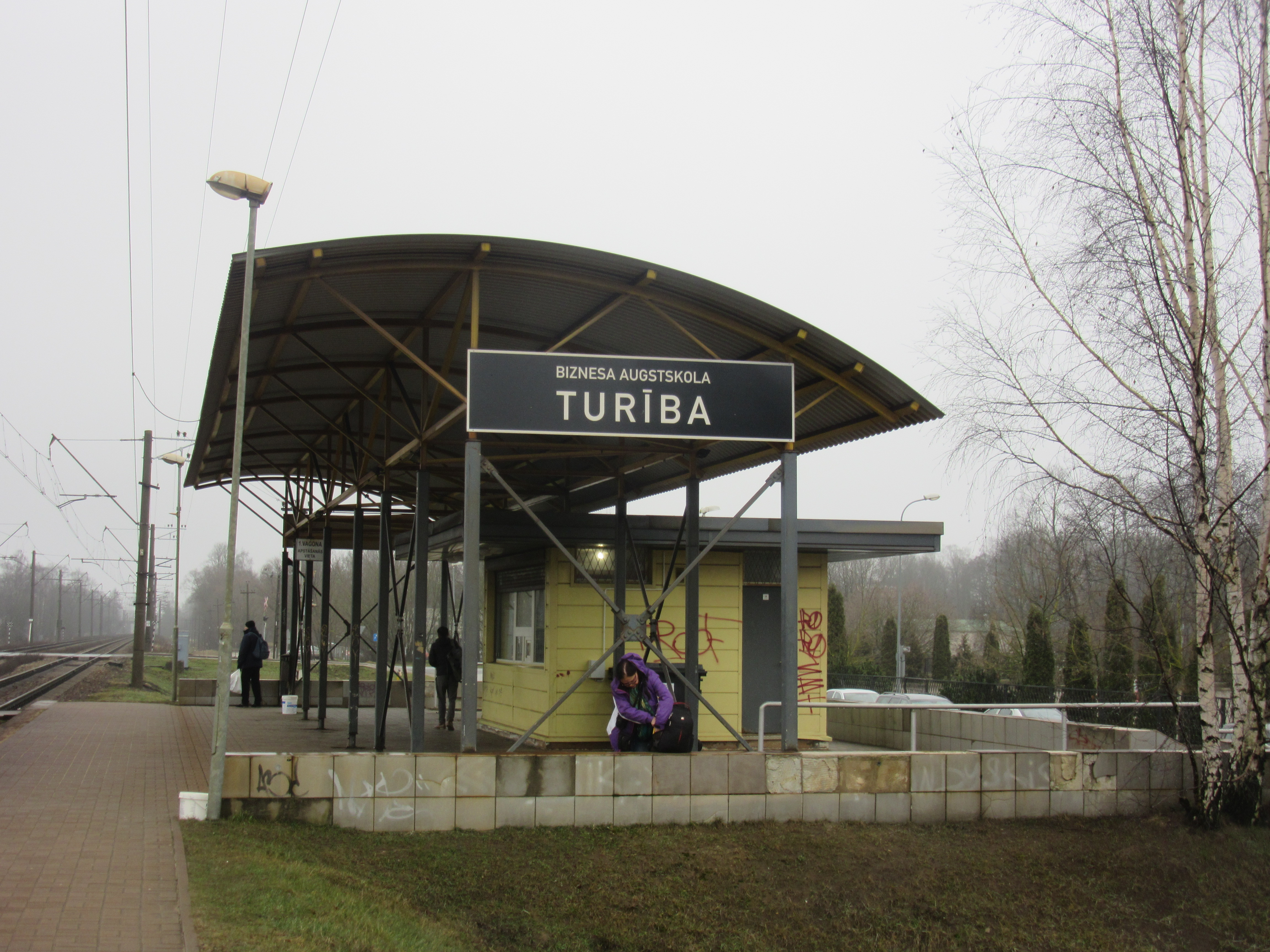 BA Turiba station